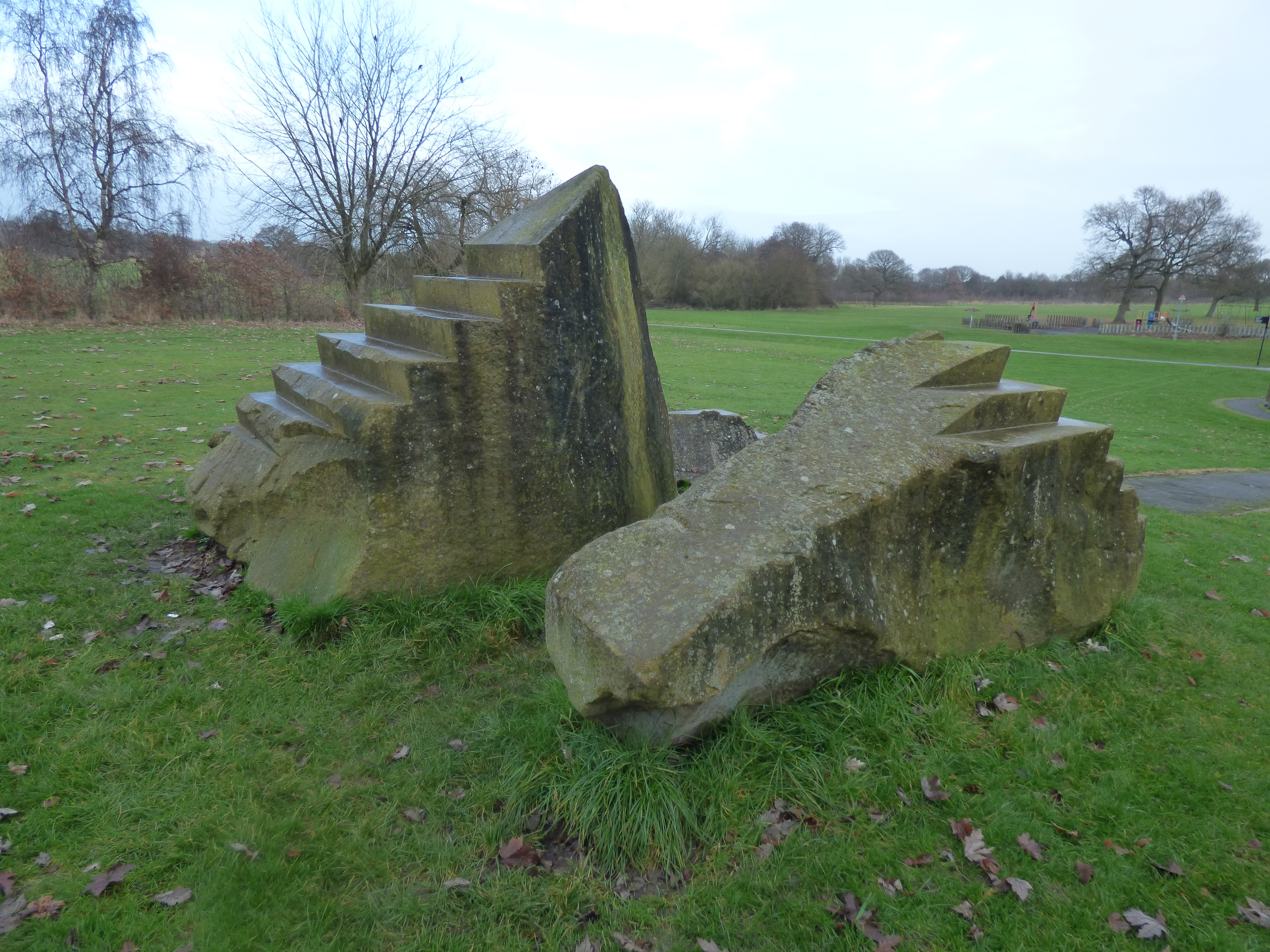 A look around Senneleys Park in Bartley Green. The park is quite close to the Woodgate Valley Country Park. A large green open space, suitable for walking and other activities. I mainly came to find a sculpture called Remains of a Pyramid. It was made around 1989 to 1991. It used to have a bronze statue figure with it, but it either got stolen, or went into storage due to vandalism. The sculptor was Avtarjeet Dhanjal. The broken pyramid pieces were made from Portland stone, but is quite weathered now after over 25 years.